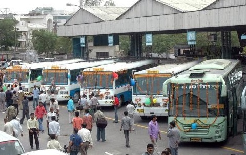 Aannd Vihar ISBT